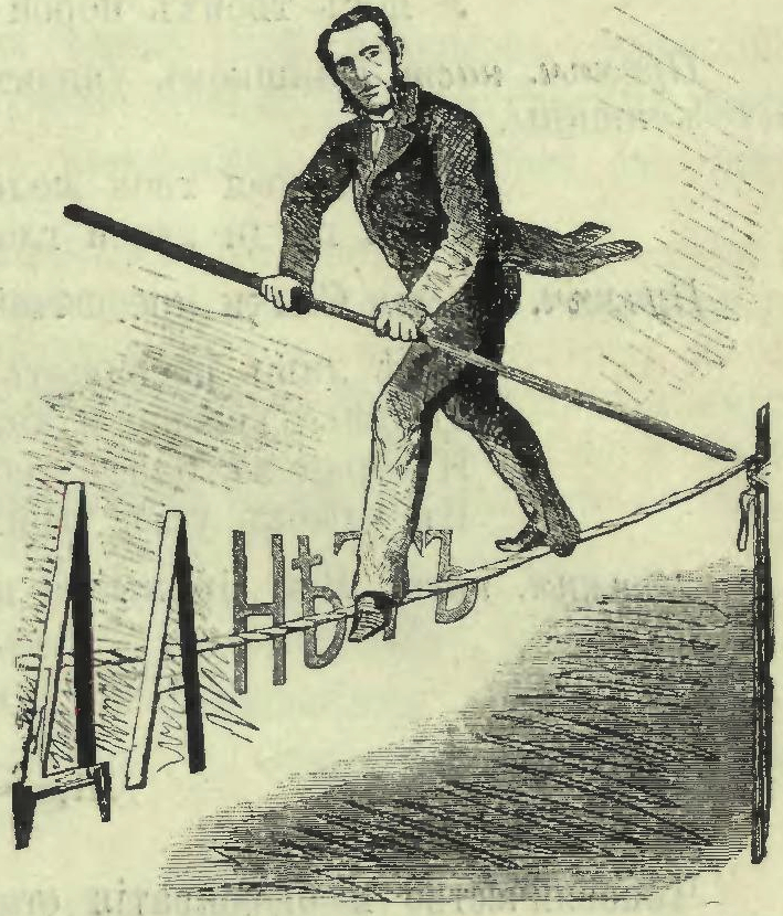 Caricature of count Pyotr Aleksandrovich Valuev, Minister of Interior. "Iskra" satirical magazine, 1862, №32.